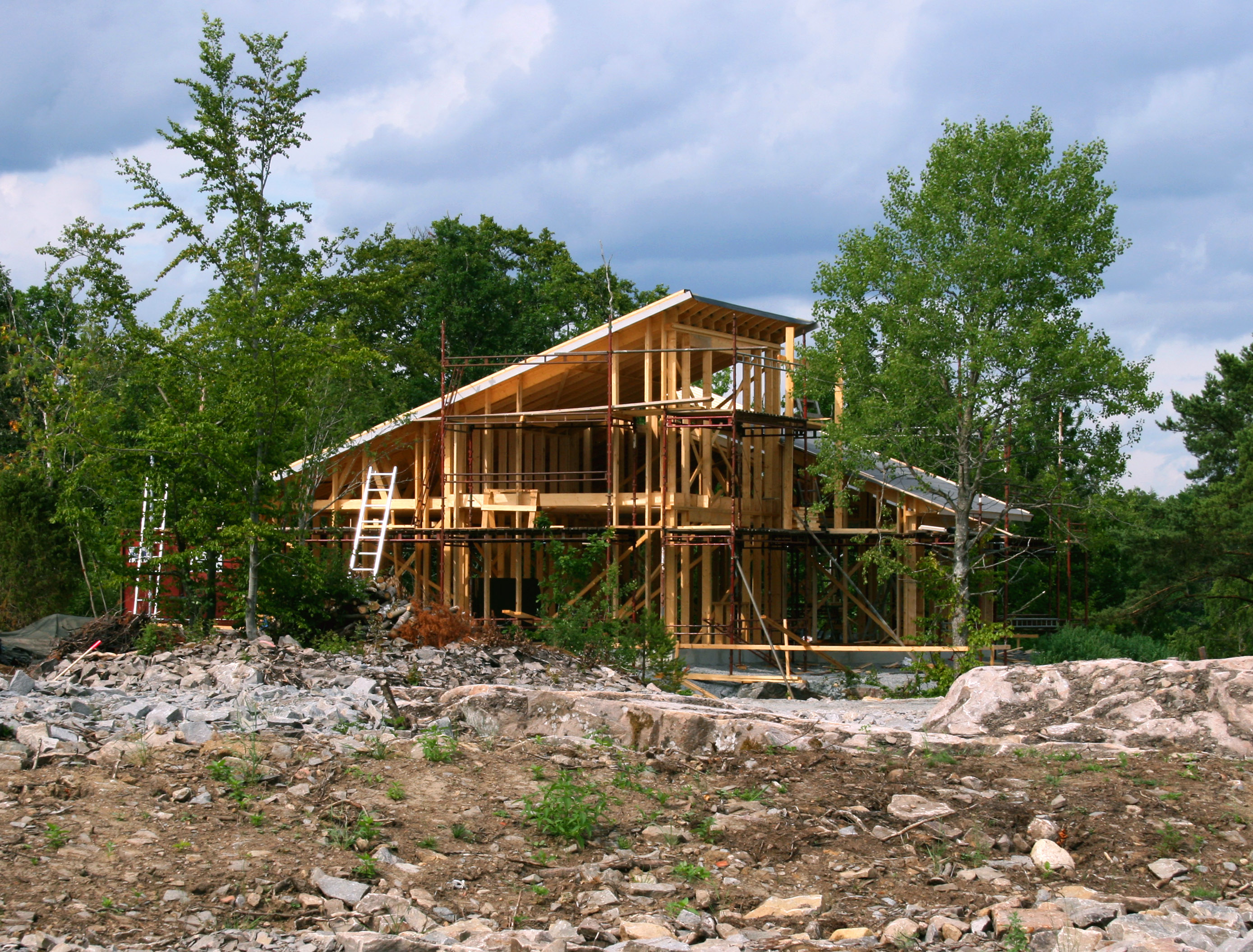 Timber framing for a new house in Blekinge County, southeast Sweden.